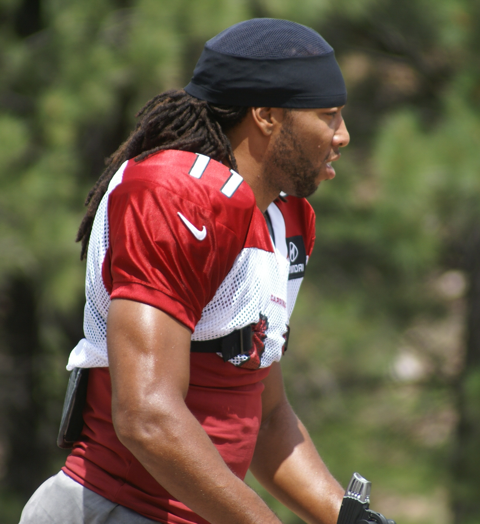 Larry Fitzgerald in 2012 training camp